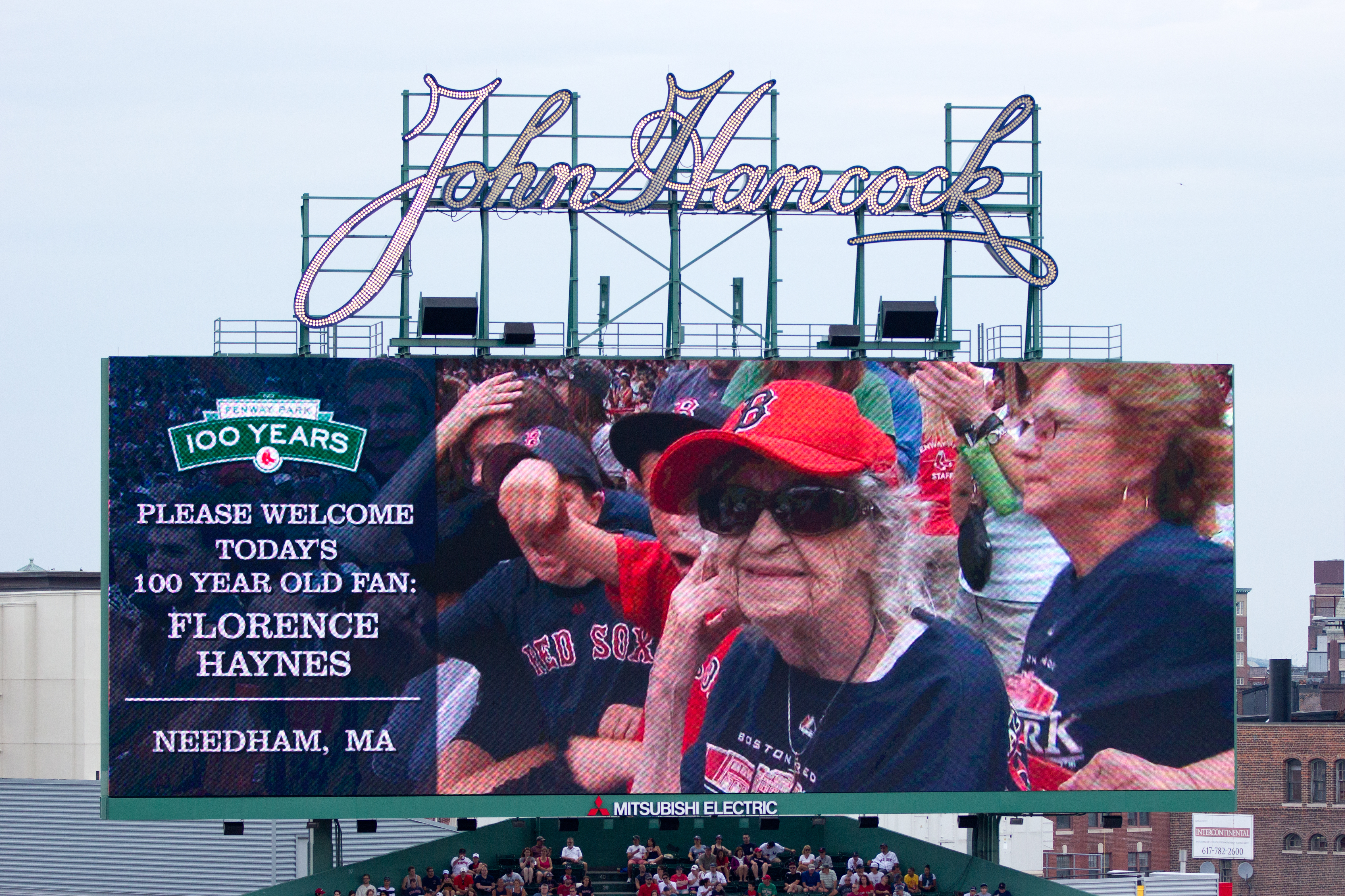 Red Sox Yankees Game Boston July 2012